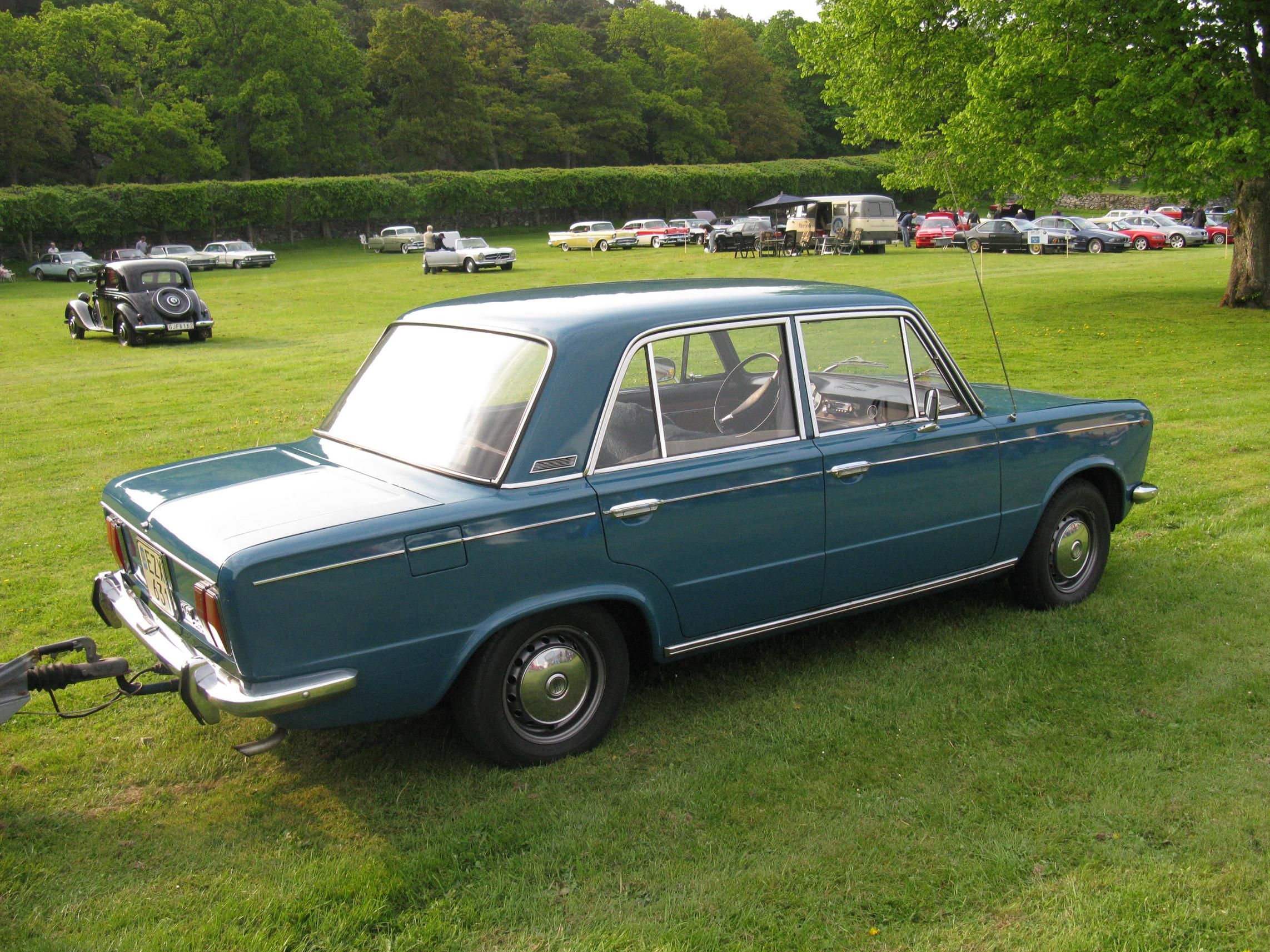 Fiat 125